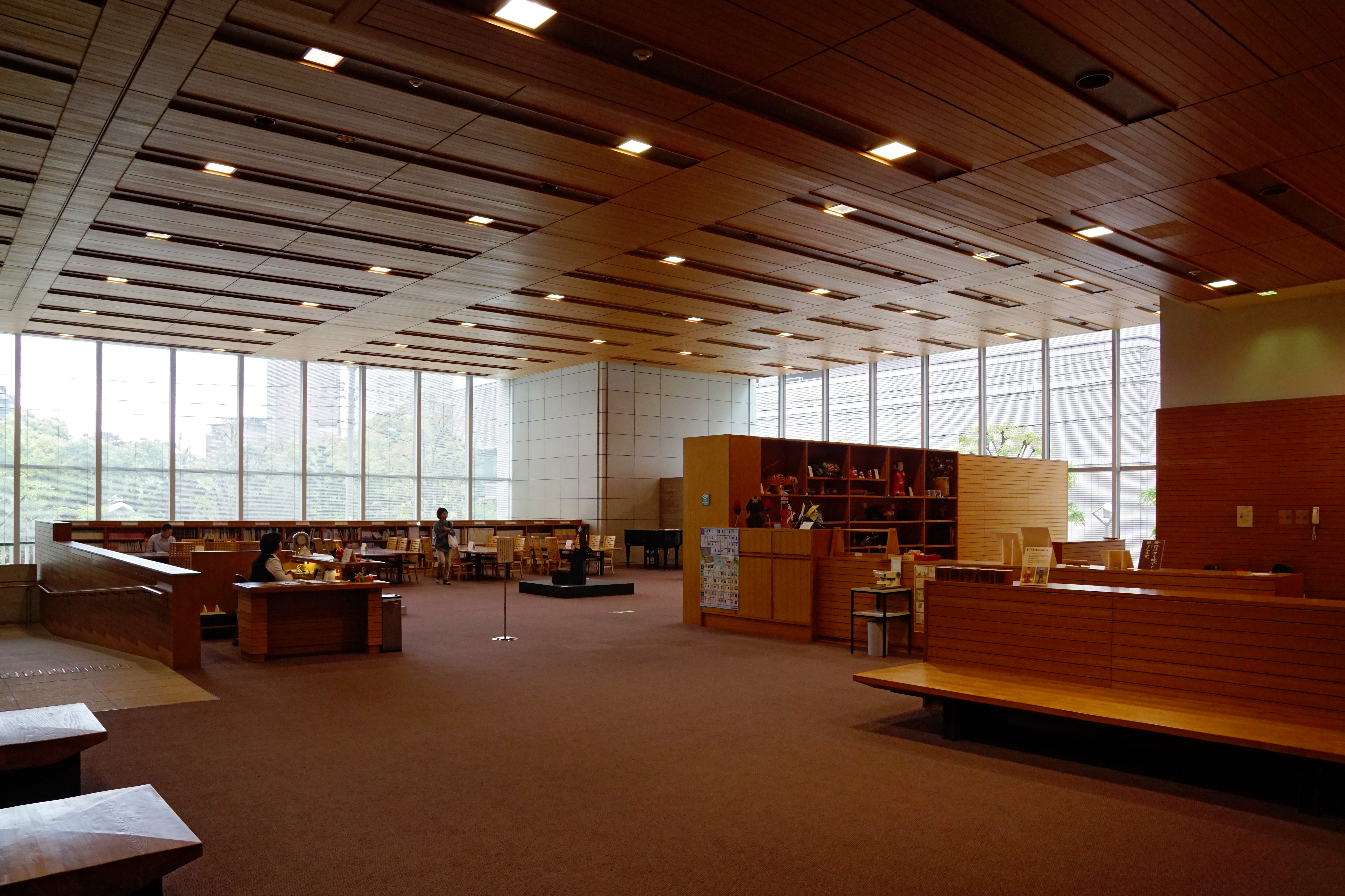 The Kagawa Museum, Takamatsu, Kagawa prefecture, Japan